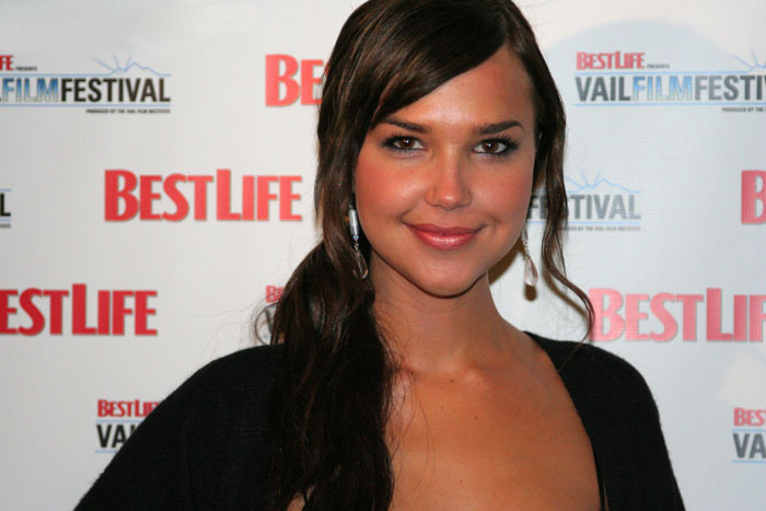 Arielle Kebbel at the 2007 Vail Film Festival